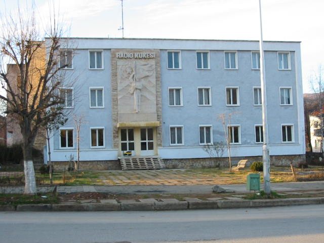 Godina e Radio Kukesit ne qytetin Kukes